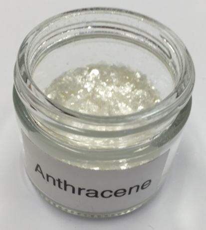 improved image of anthracene